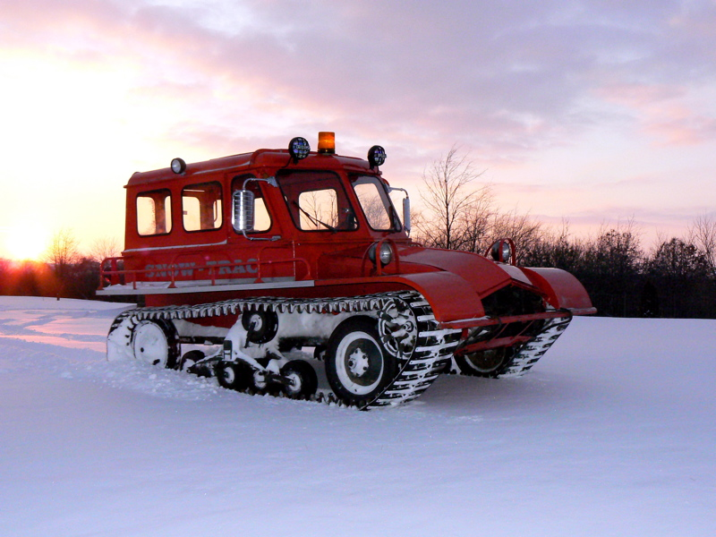 1972 VW powered Aktiv Snow Trac, model ST4, manufactured in Sweden between 1957 and 1981.